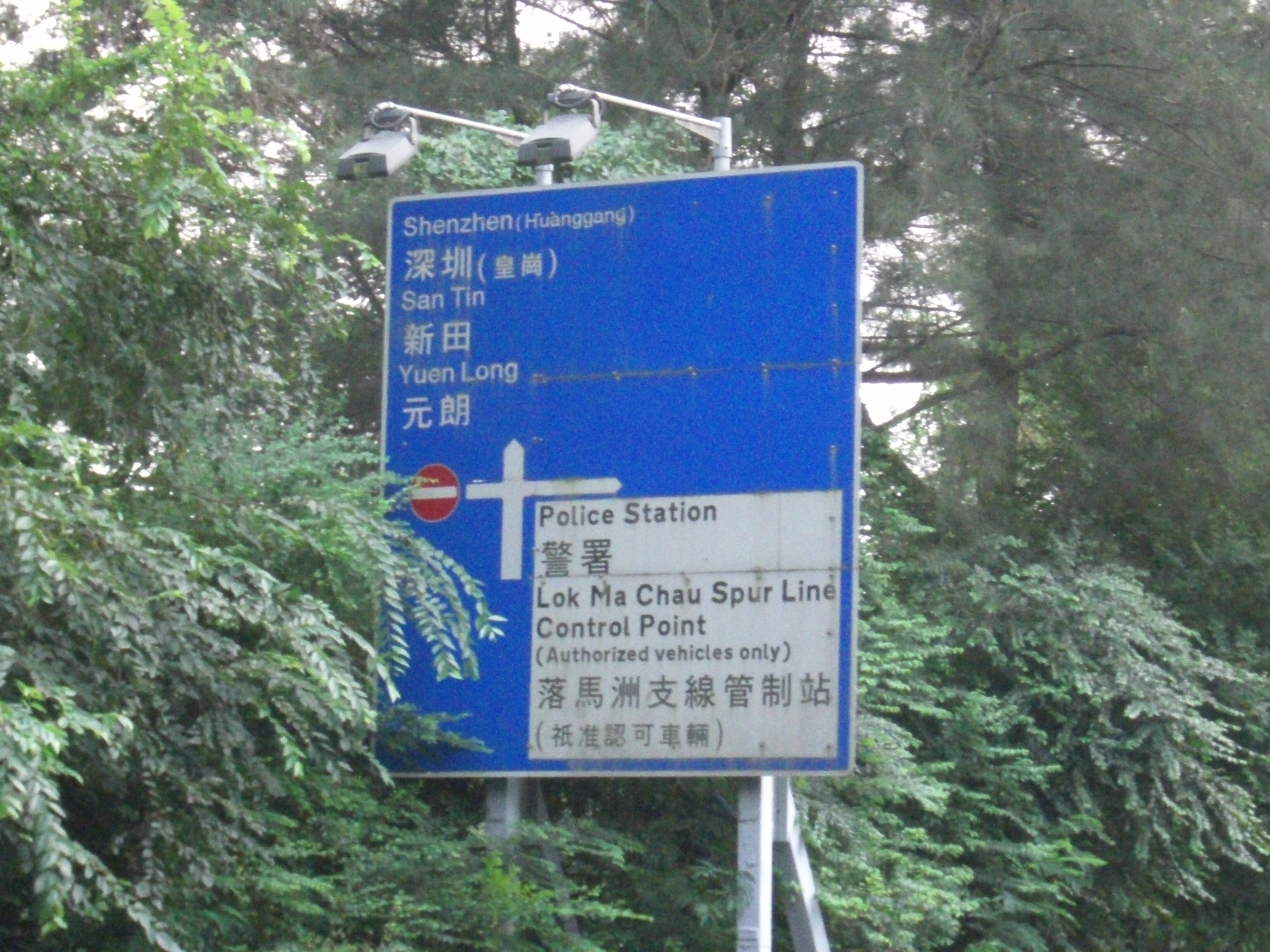 lok ma chau spur line